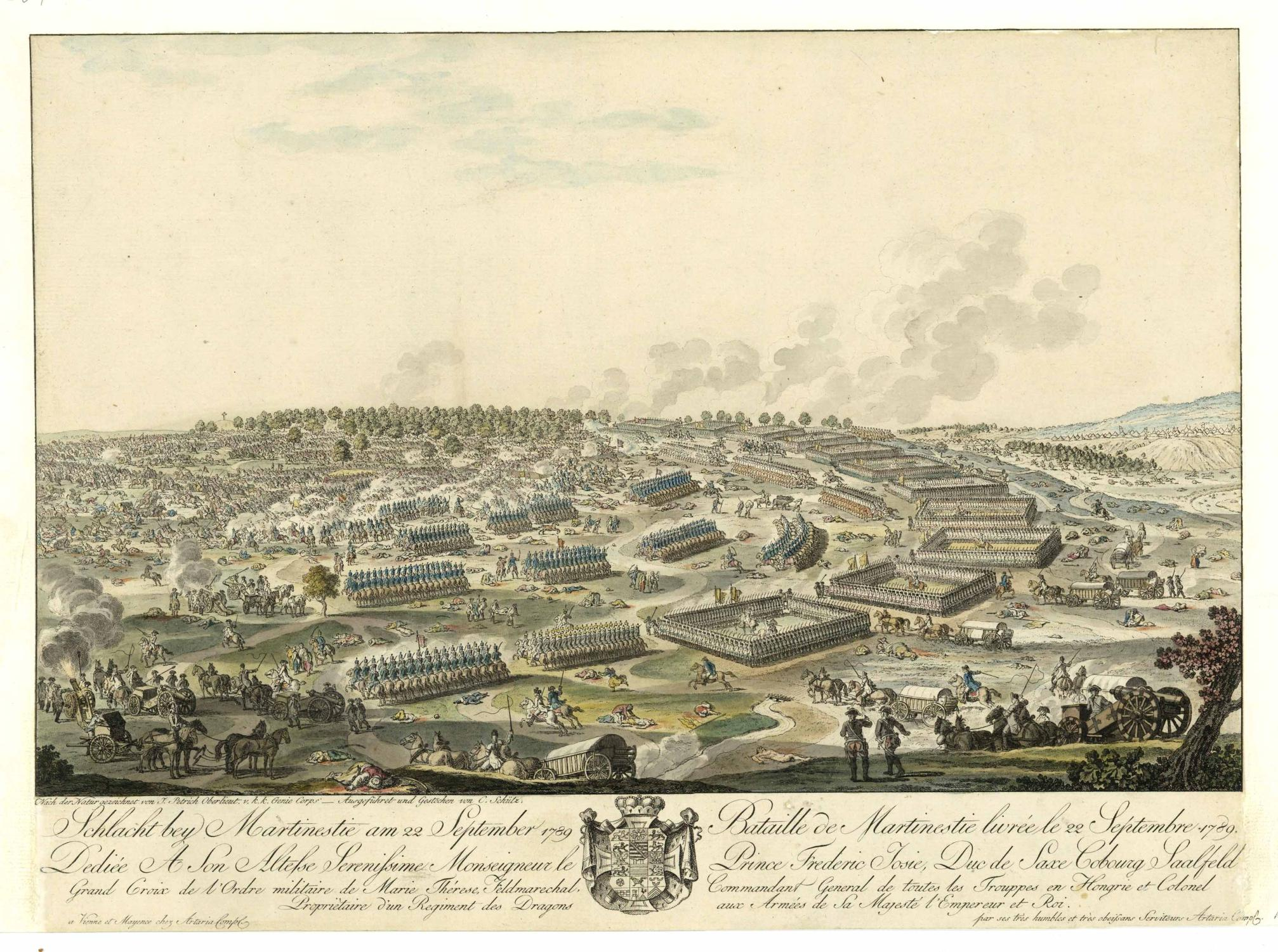 Battle of Râmnic.